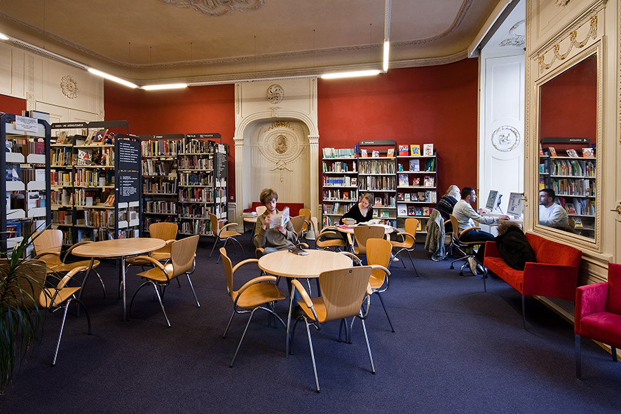 Library of the Goethe Institute Cracow